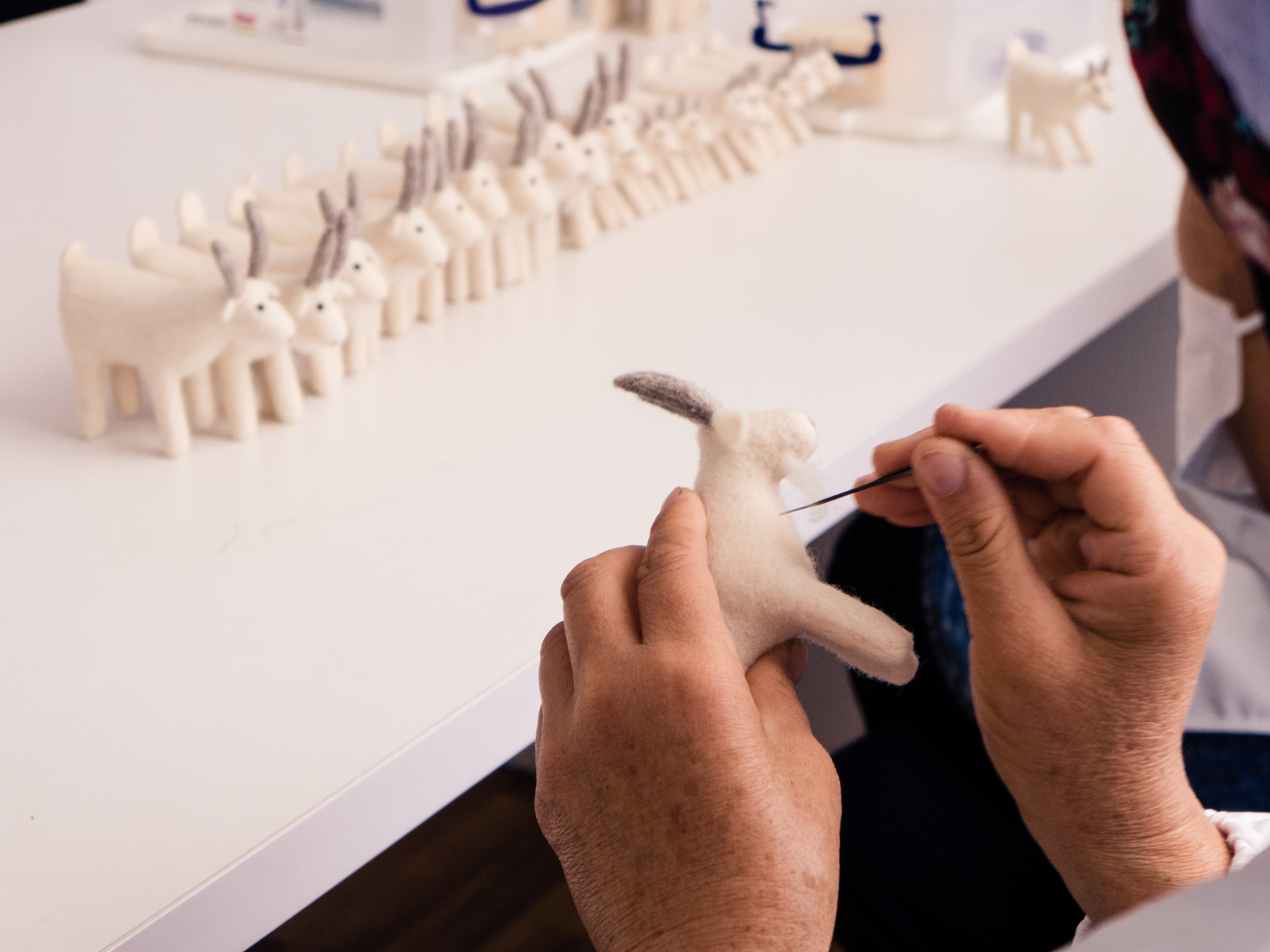 Needle felting process as seen in a cooperative on the shores of Issyl Kul, Kyrgyzstan.